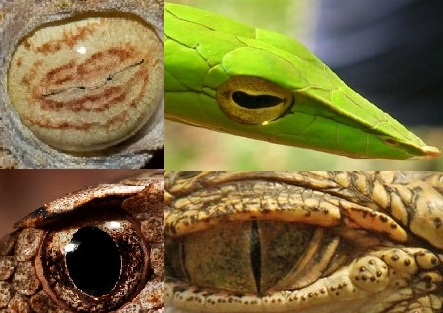 A collage of reptiles eyes. Species (from left): Uroplatus fimbriatus, Ahaetulla nasuta (Green vine snake), Vipera ammodytes meridionalis (eastern sand viper), Crocodylus siamensis (Siamese Crocodile).